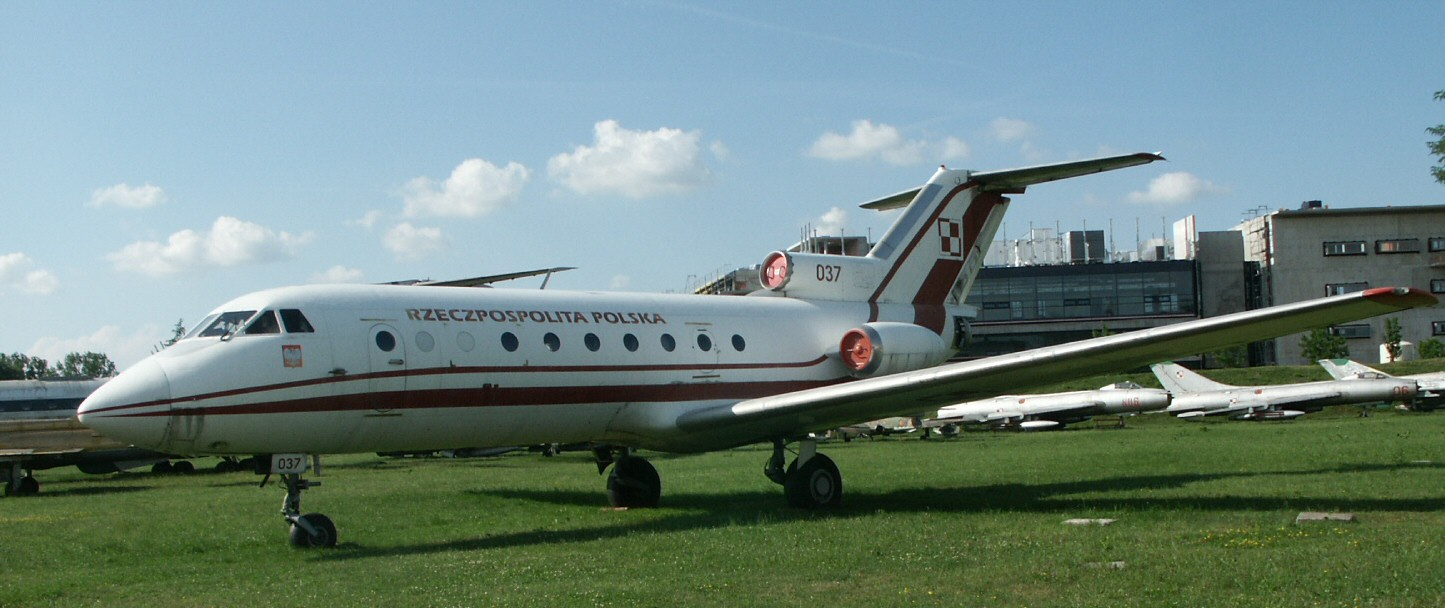 Yakovlev Yak-40 as a Polish governmental aircraft, Polish Aviation Museum in Kraków